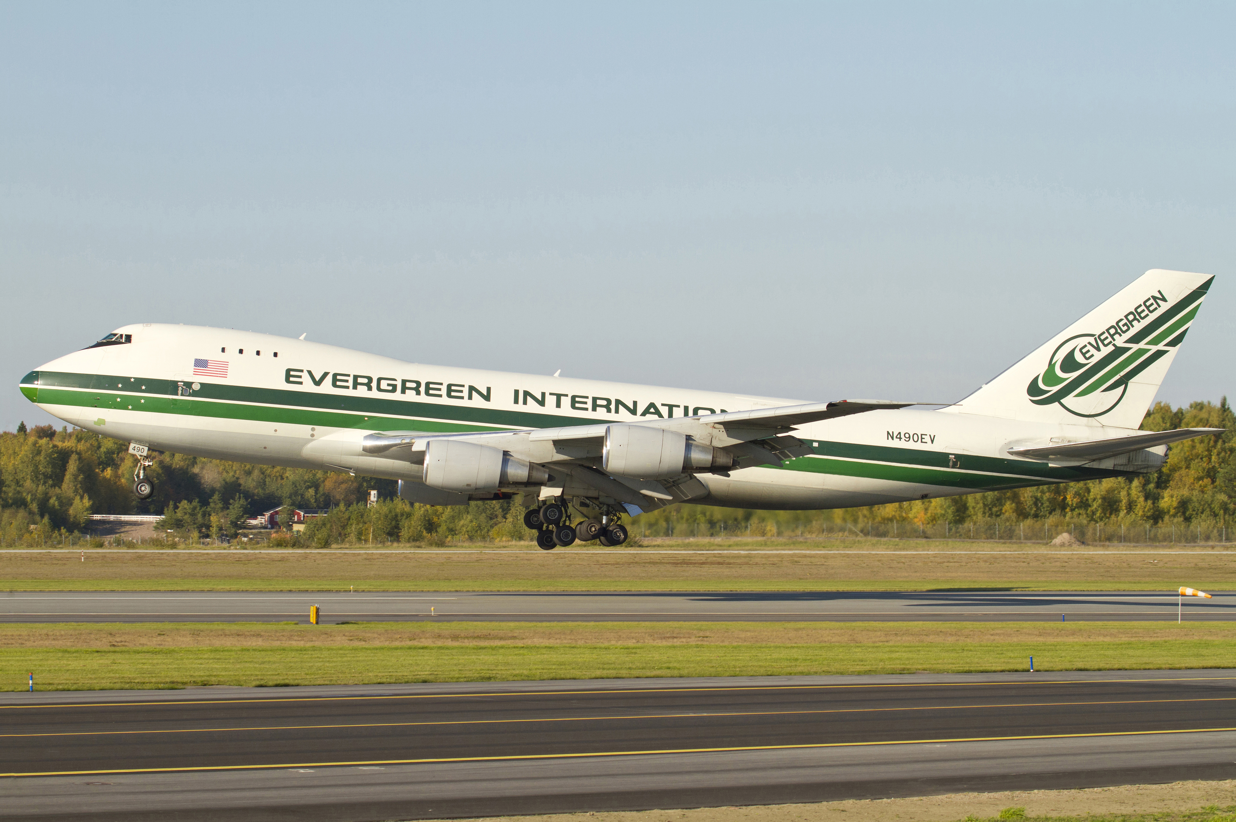 Evergreen International Boeing 747-200F landing at Stockholm - Arlanda International Airport, Sweden